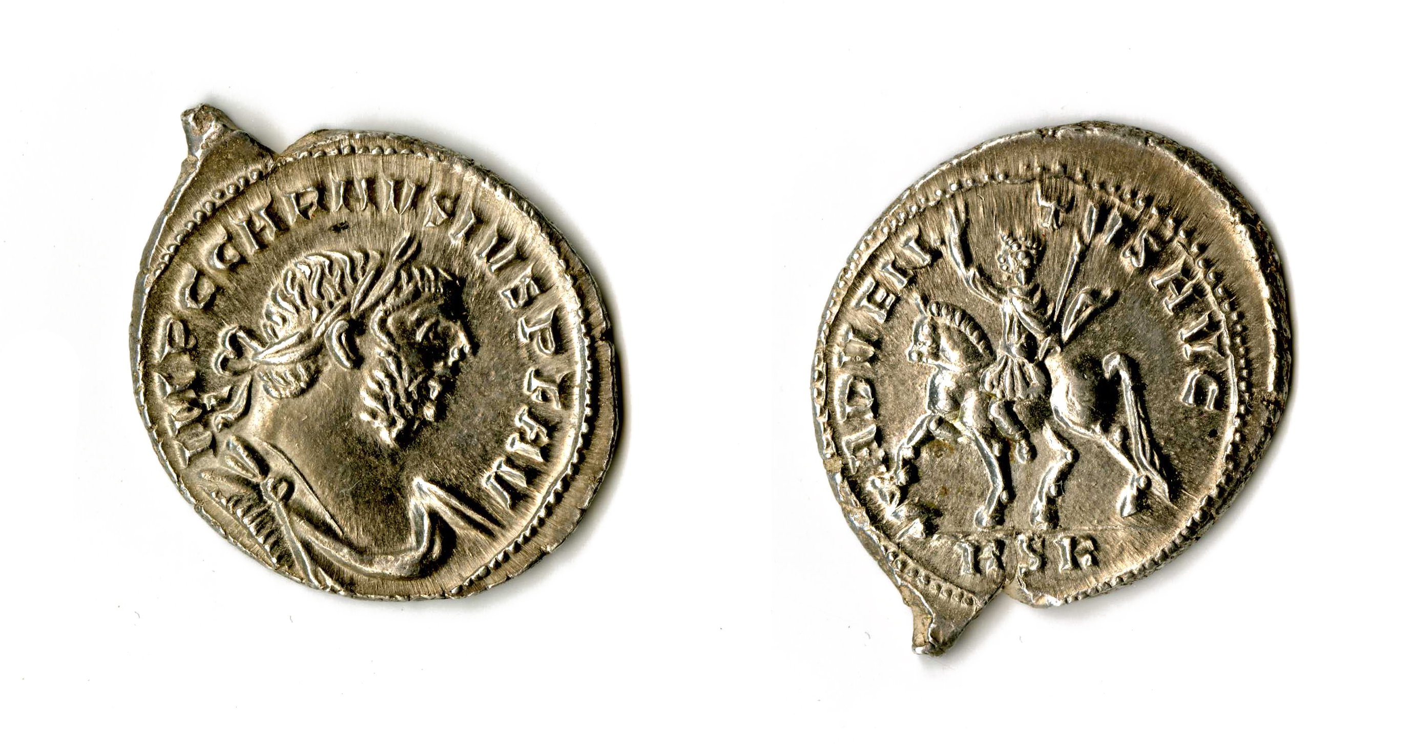 Frome Silver denarius of Carausius 286-93 Adventus (13 3) Composite image